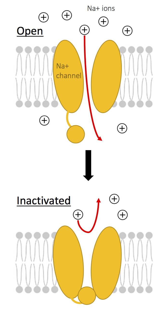 Cropped from File:Poneratoxin schematic.tif.